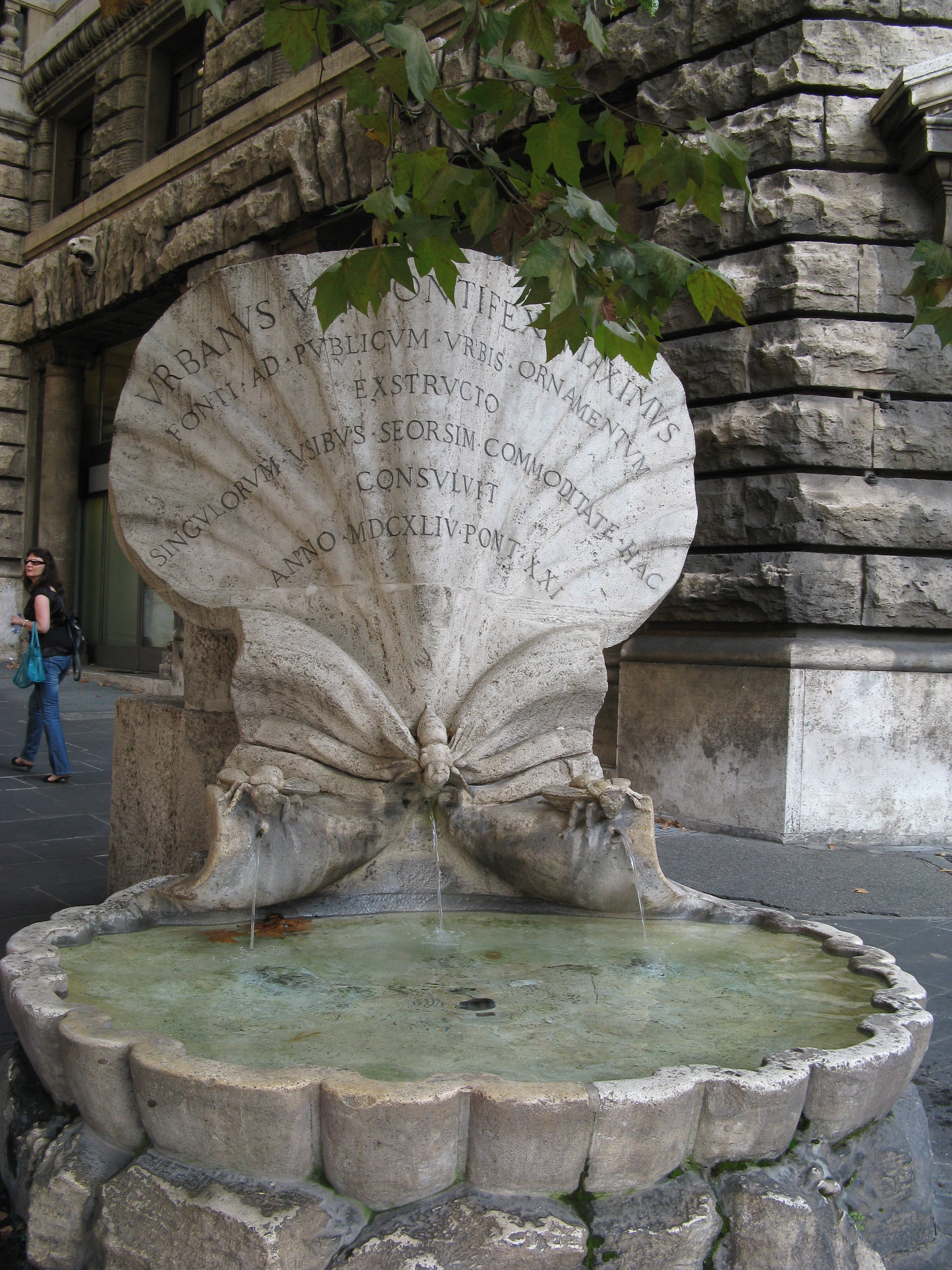 Fontana delle Api by Giovanni Lorenzo Bernini at Piazza Barberini.